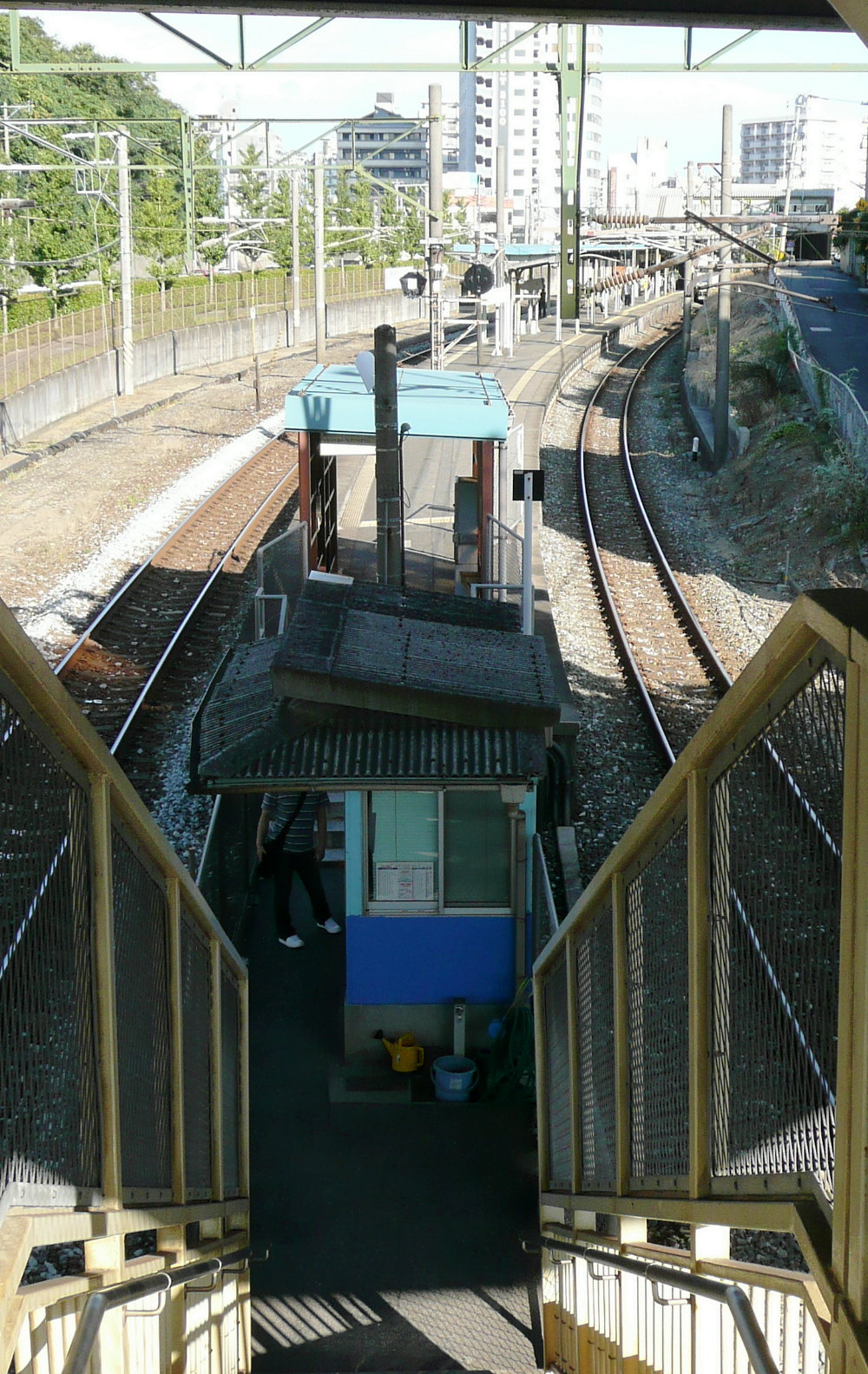 Nippo Main Line Minami-Kokura Station temporary ticket gate